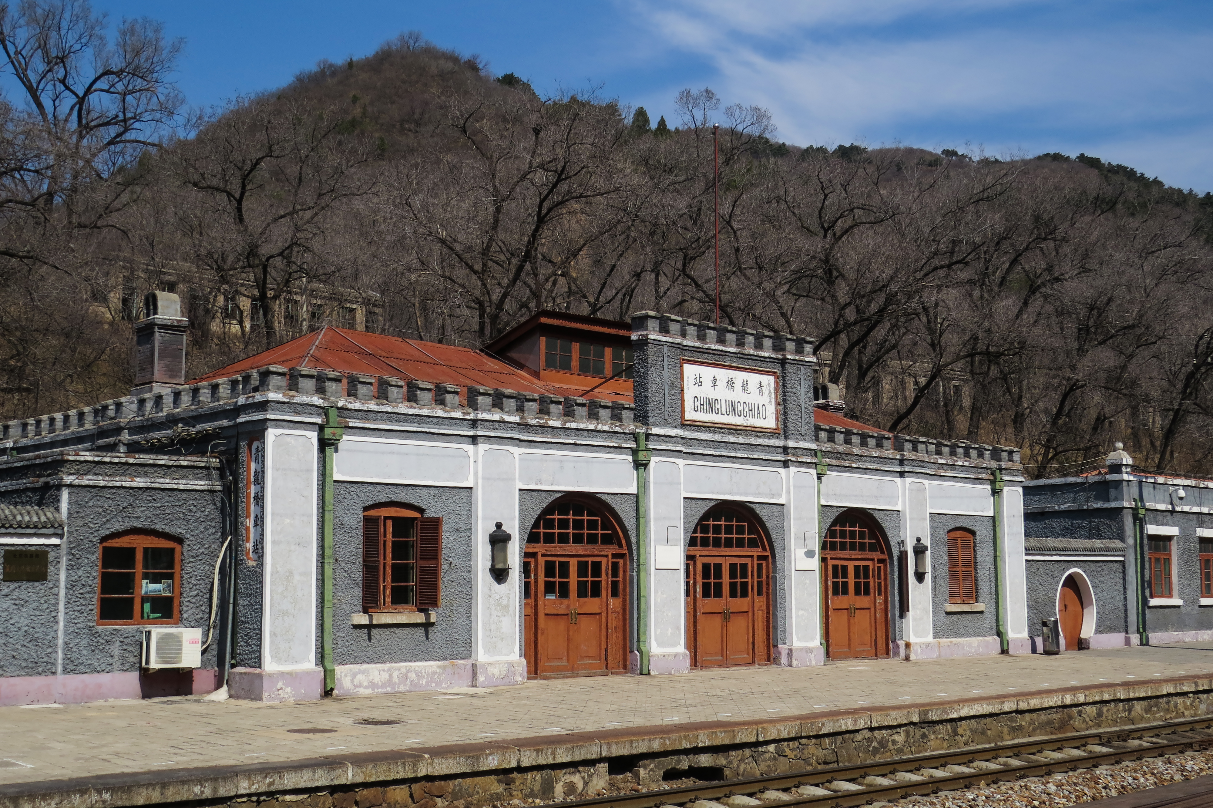 Taken before the arrival of S210.